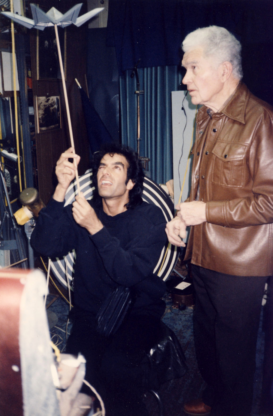 David Copperfield visits Magician Jerry Andrus at home